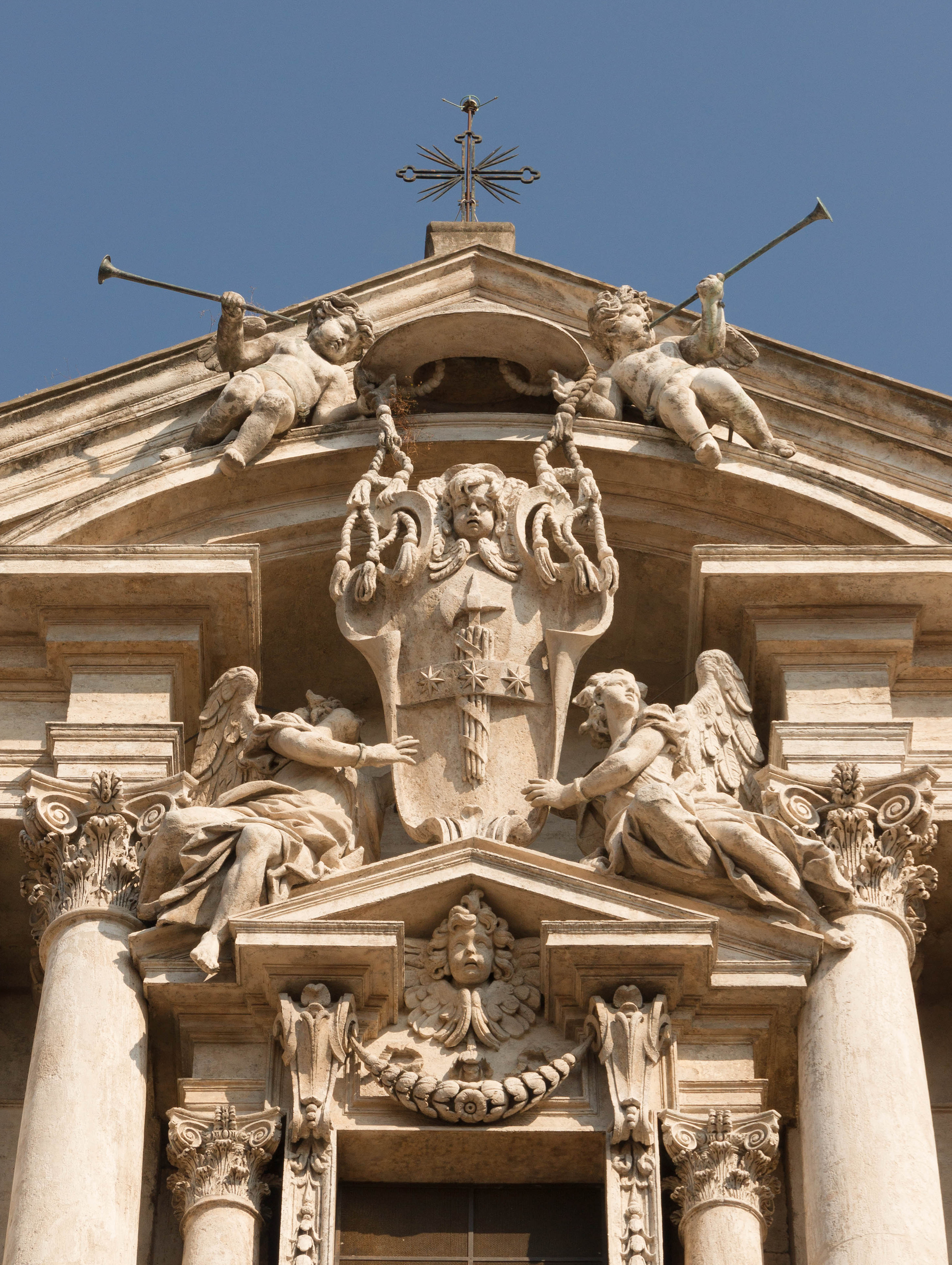 Top of the pediment of the church Saints Vincent and Anastase, close to the Trevi Fontain. CoA of Cardinal Giulio Mazarini, prime Minister of young Louis XIV of France.